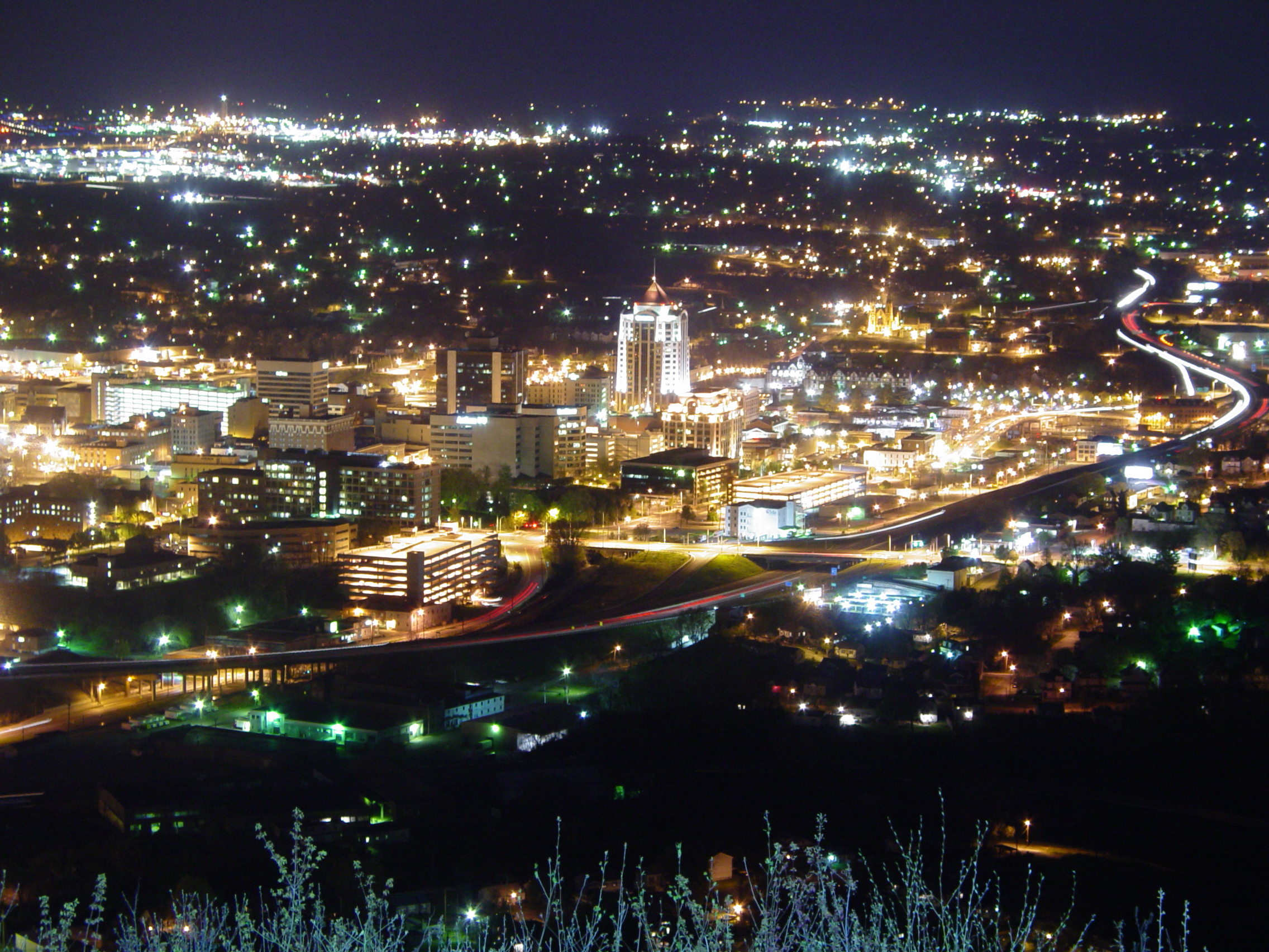 Roanoke, Virginia as seen at night from the Mill Mountain Star.